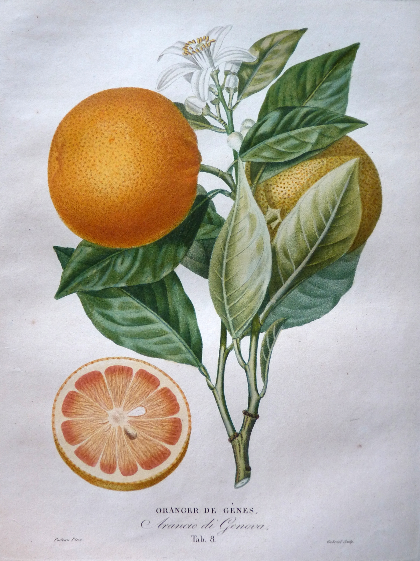 Plate 8, "Oranger de Gènes, Arancio di Genova", from l’Histoire Naturelle des Orangers